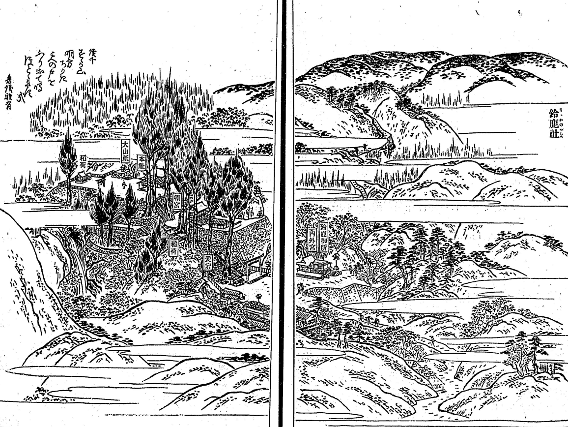 Katayama shrine in Kammeyama, Mie, Japan from Tōkaidō meisho zue